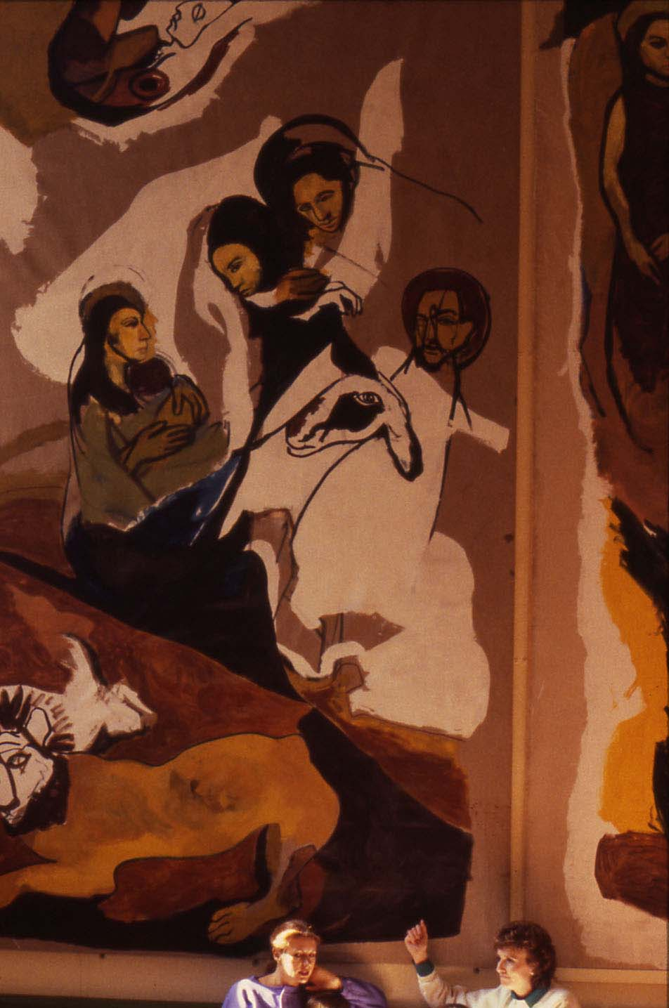 1967 - ORATORY MURA - FLIGHT INTO EGYPT Installation view at the Institutes for the Achievement of Human Potential, Philadelphia, PA